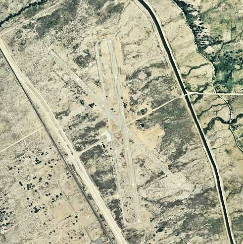 USGS digital orthophoto of Inyo County Airport in California